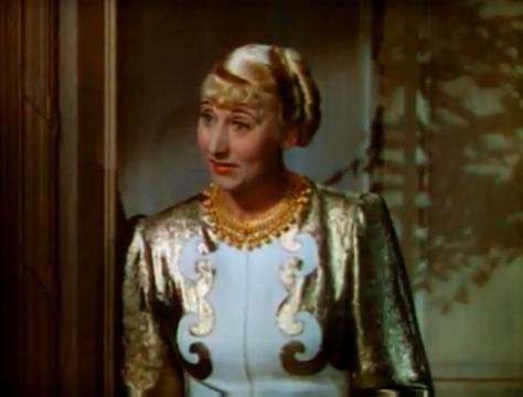 Charlotte Greenwood in Down Argentine Way - trailer (cropped screenshot)